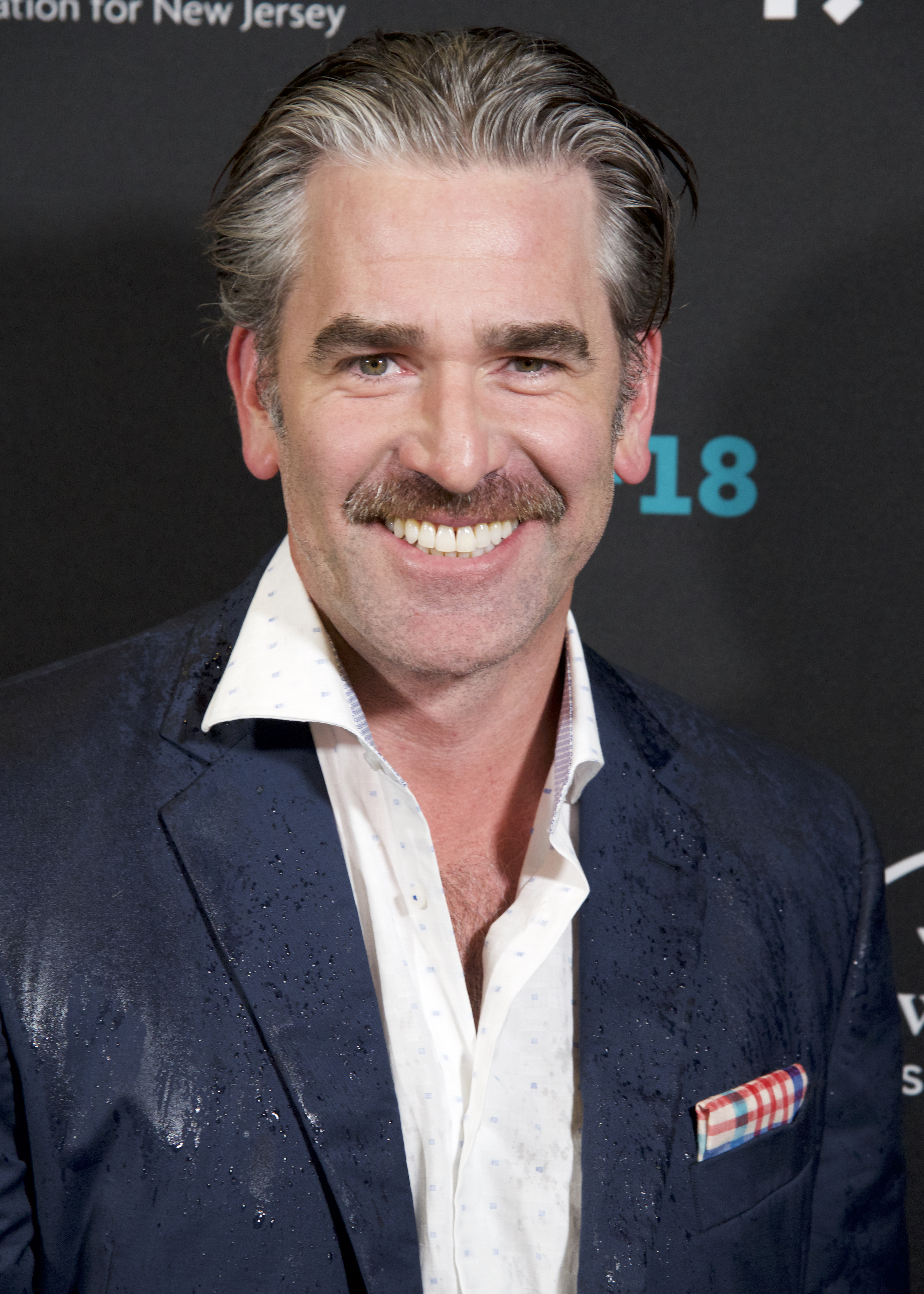 photo by "Dan D'Errico / Montclair Film"